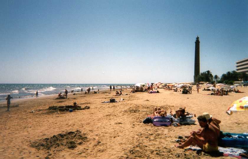 Maspalomas, Gran Canaria